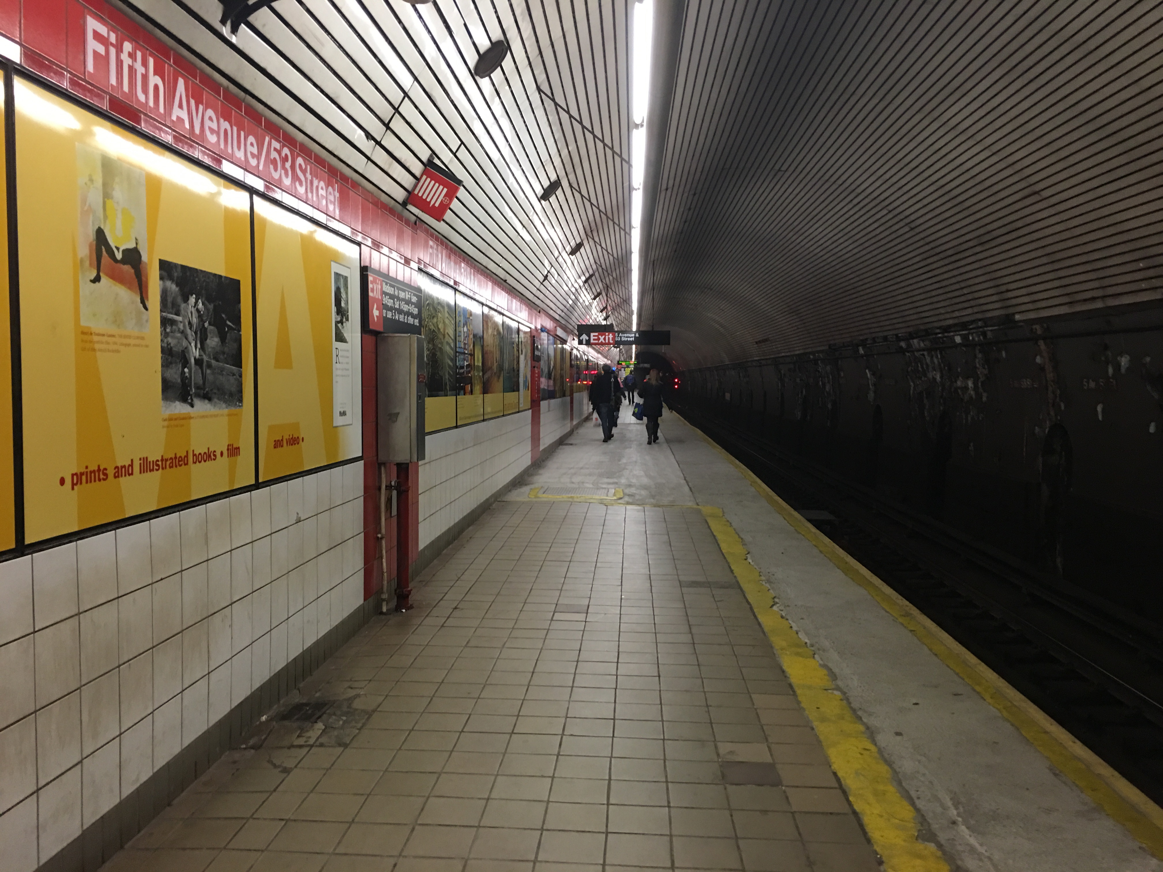 Lower level platform at 5th Av/53rd St on the IND E/M.